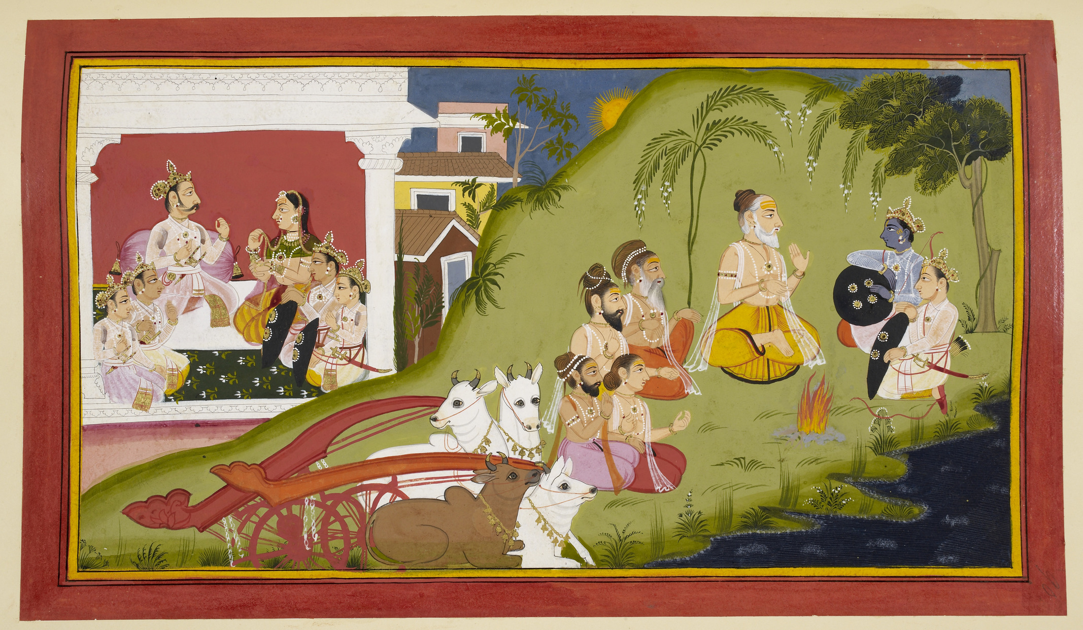 Visvamitra tells a story On the banks of the River Shona Rama, Lakshmana and Visvamitra rest and recite evening prayers. Visvamitra tells Rama about the history of the dynasty of King Kusha.King Kusha and his four sons are depicted seated in the pavilion on the left of the folio.